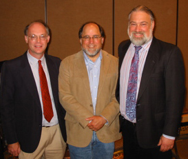 Sherman, Rivest and Chaum